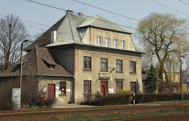 Train station in Rudawa